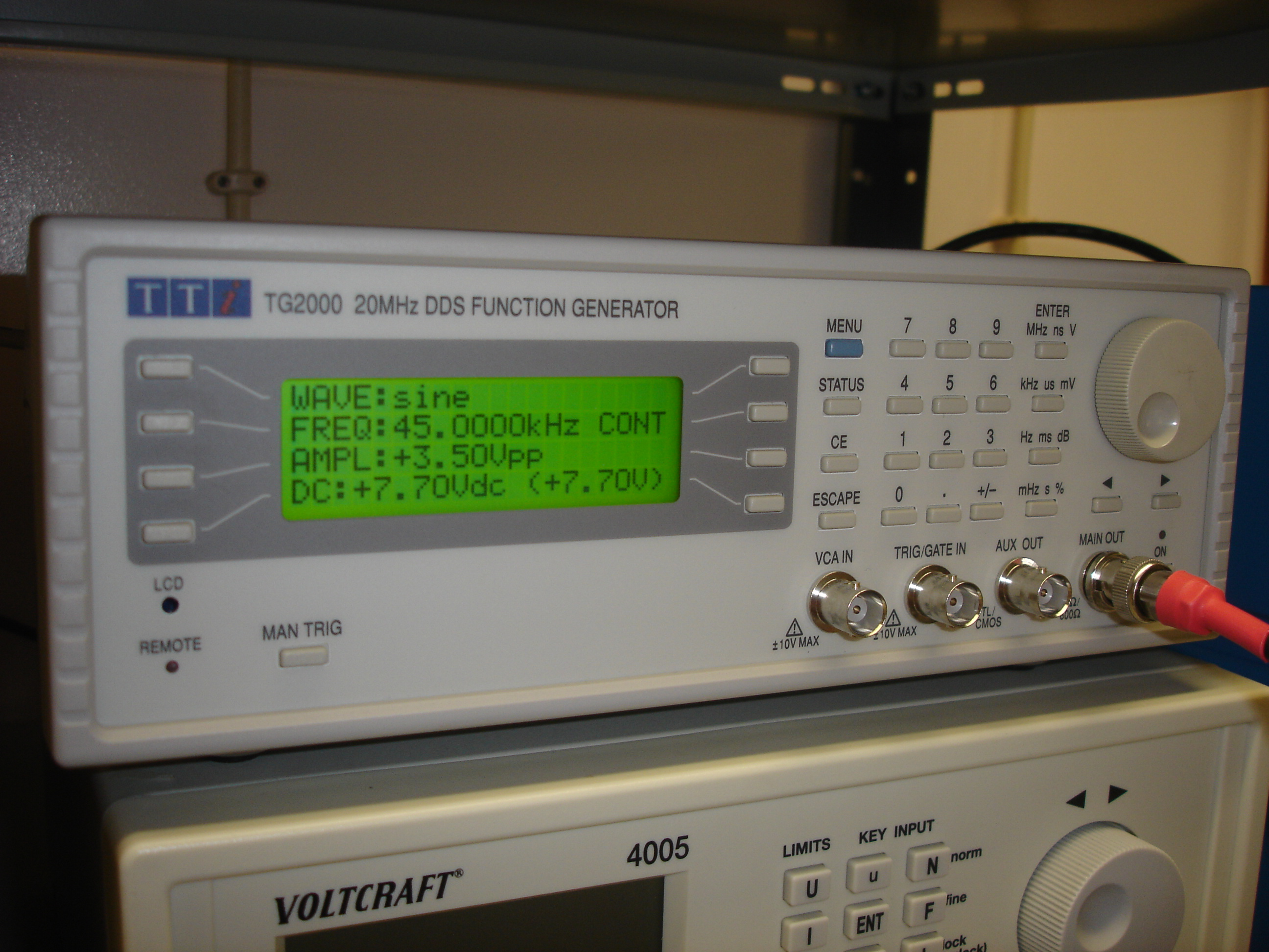 A DDS function generator. TTi TG2000.